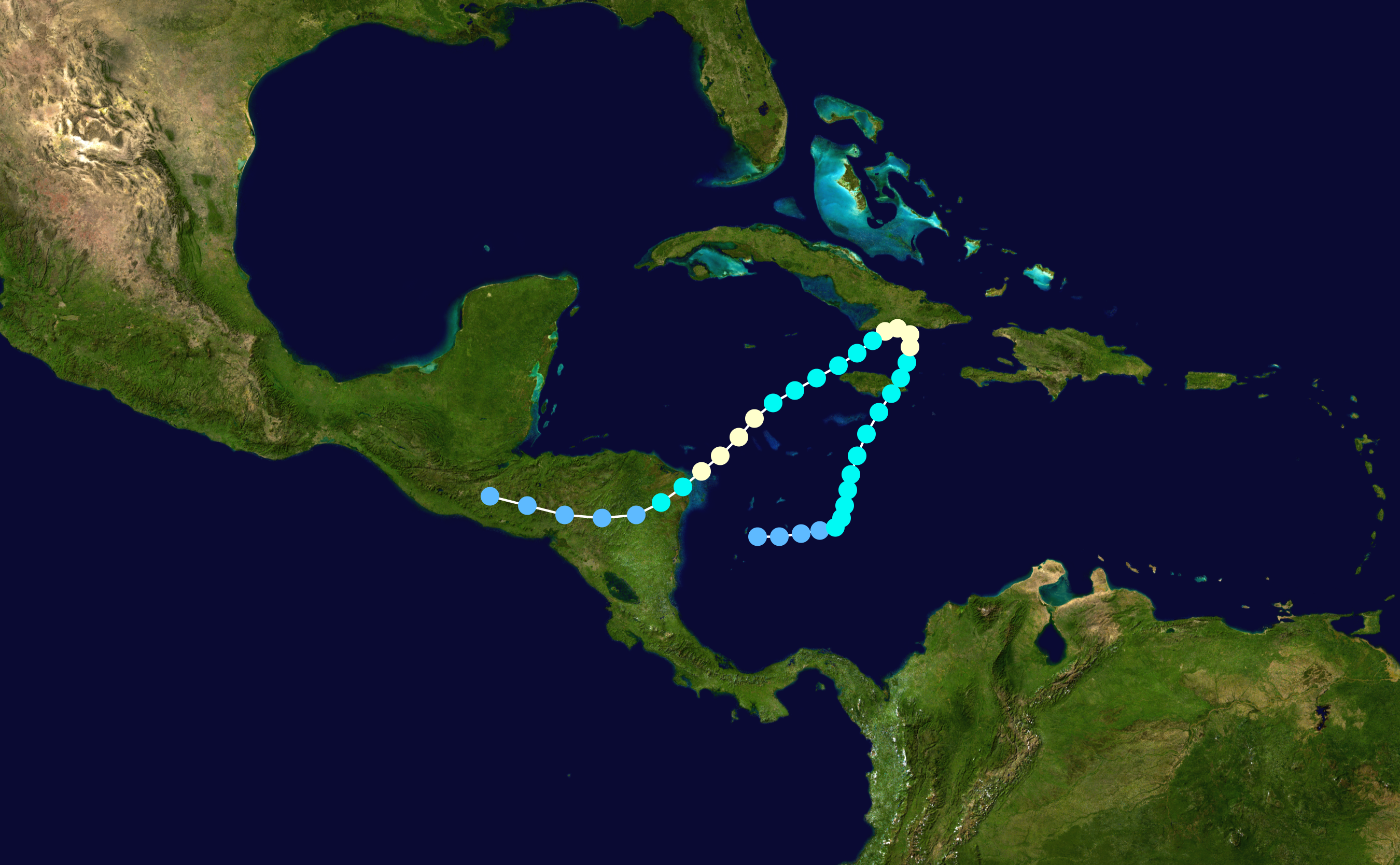 1935 Atlantic hurricane 6 track. Uses the color scheme from the Saffir-Simpson Hurricane Scale.